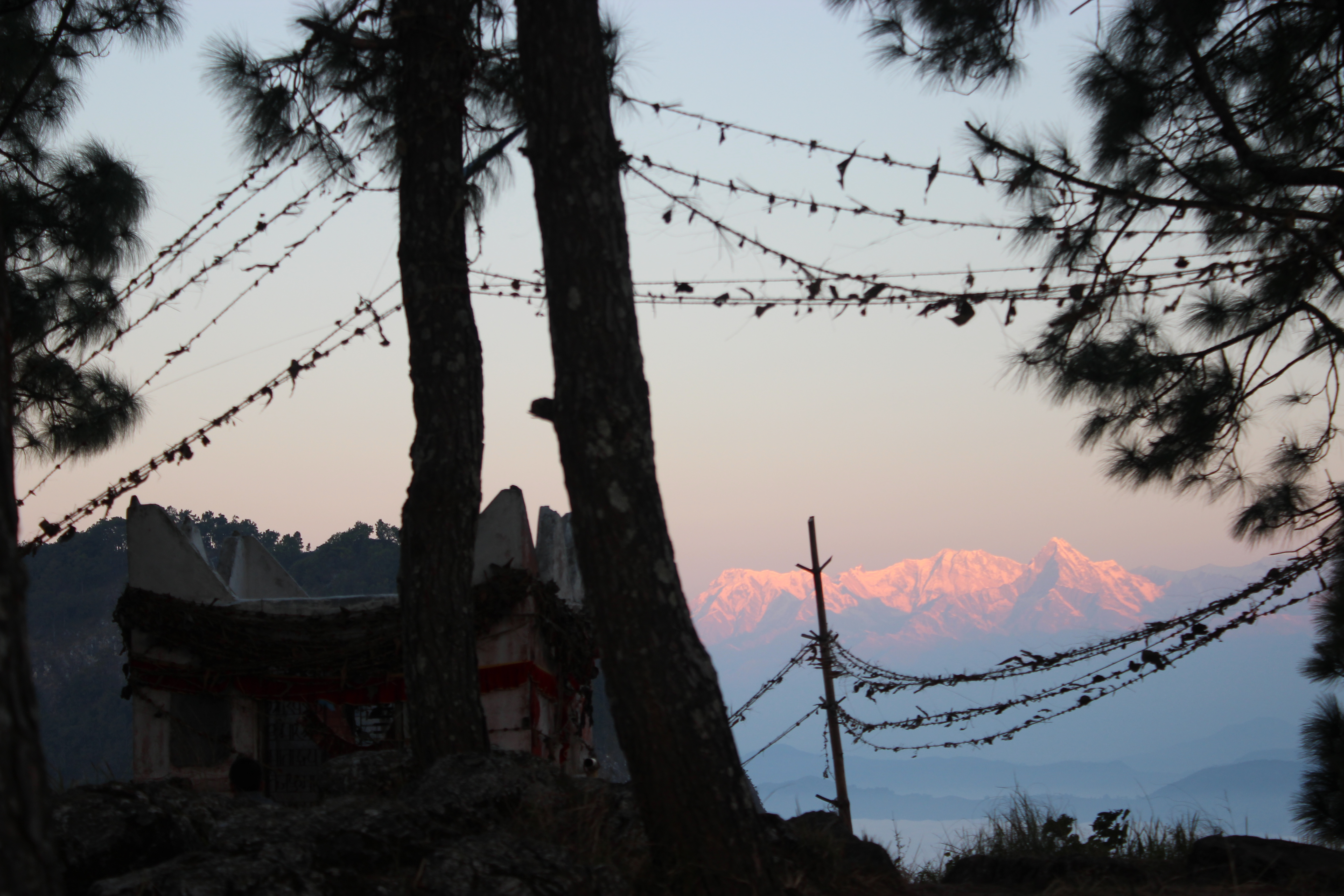 Temple on the top hill of Thani Mai Danda, dedicated for goddess durga as a thani mai.